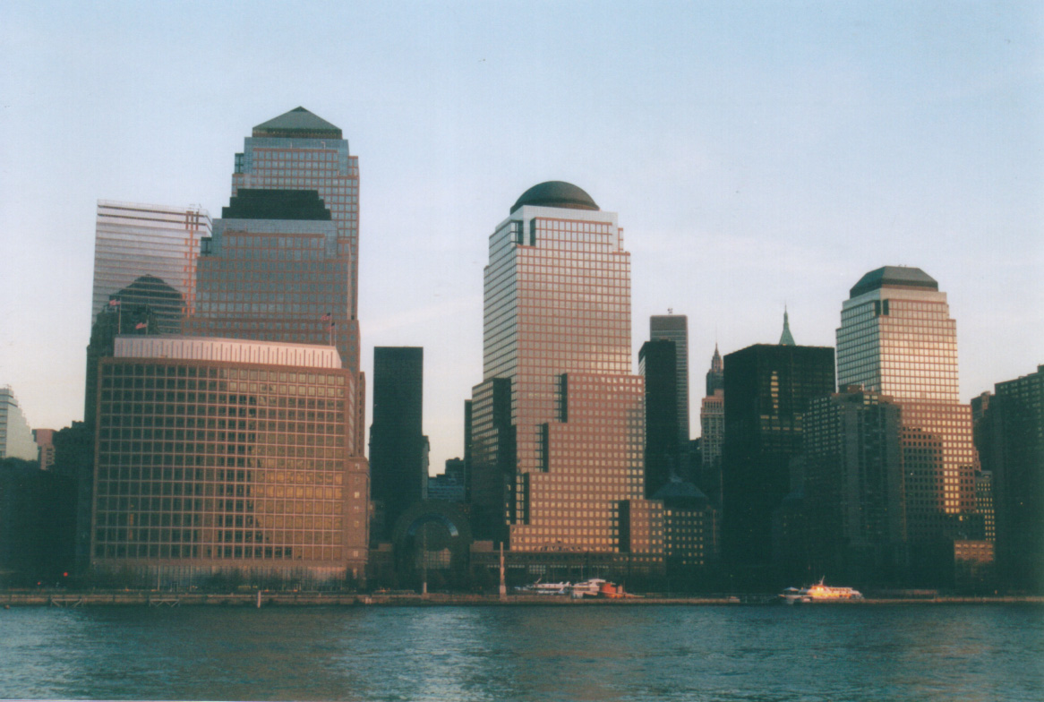 Taken by User:Legalizeit in December 2005. Creative Commons licence.